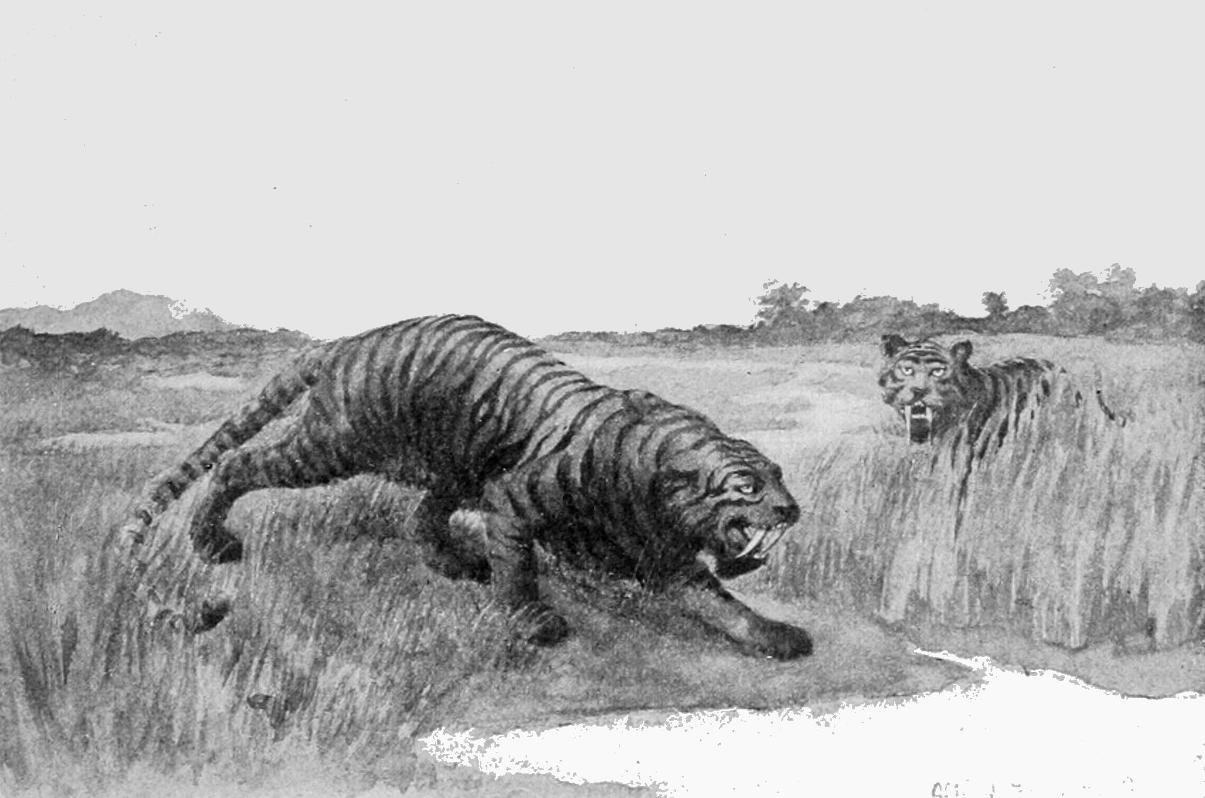 Saber toothed cat hoplophoneus occidentalis